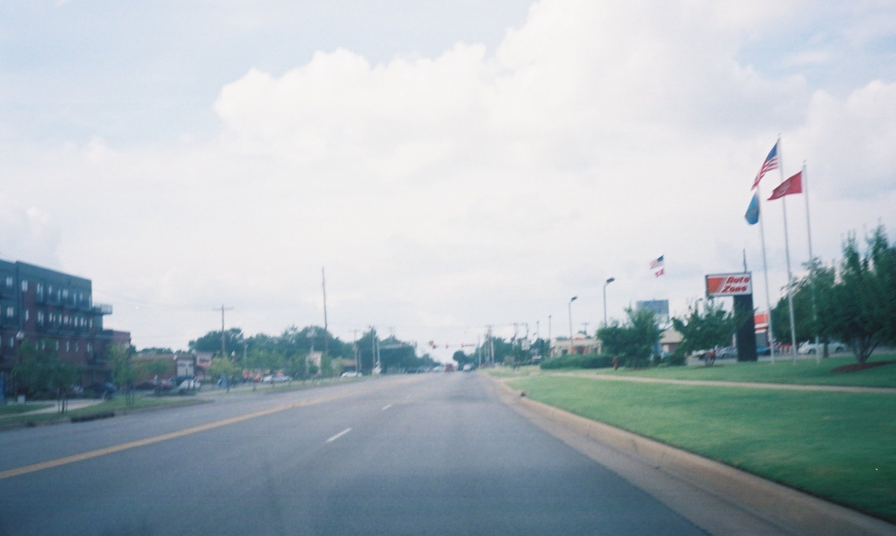 A photograph of Oklahoma State Highway 77H in Norman, Oklahoma.